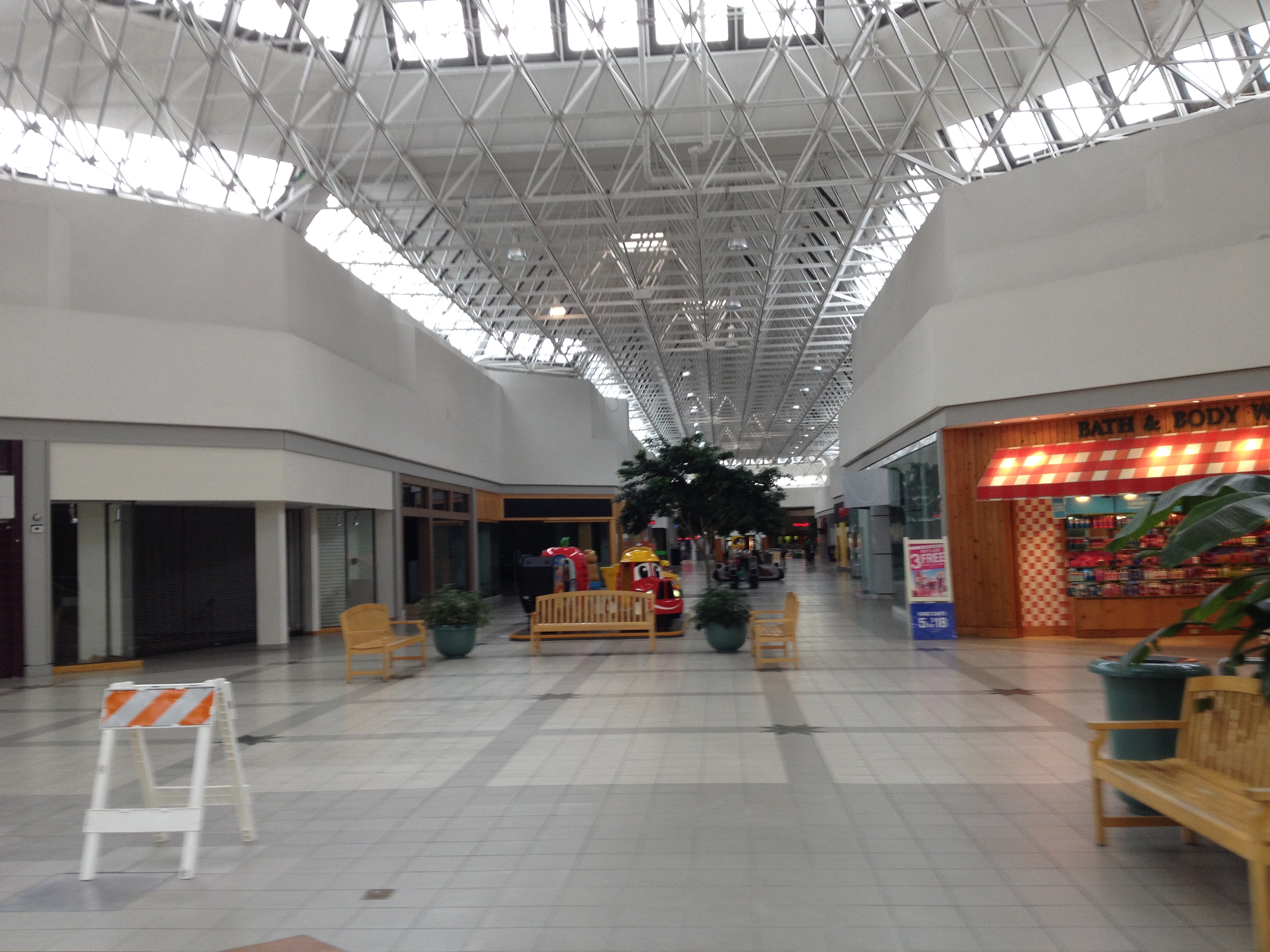 The Fairgrounds Square Mall near Burlington Coat Factory.